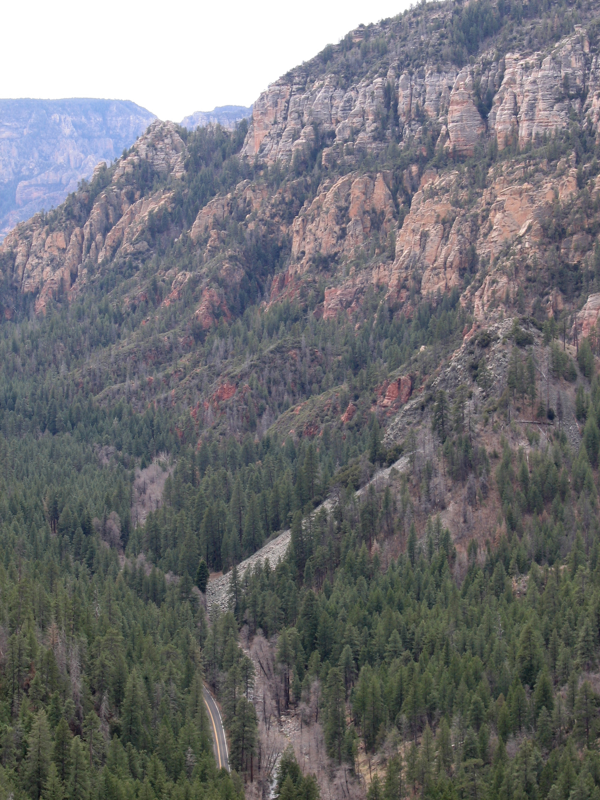 Oak Creek Canyon, Arizona. West side of Oak Creek (& Canyon), contains West Oak Creek-(north canyon, Red Rock-Secret Mountain Wilderness), and three formations (top-to-bottom), youngest to oldest, Kaibab Limestone, Coconino Sandstone, & Hermit Shale-(Supai Group). The East Side Oak Creek Canyon has the 3 layers erosionally, removed, now overlain by layers of volcanics, and are part of the Mogollon Rim (Arizona Highlands, or Arizona transition zone).